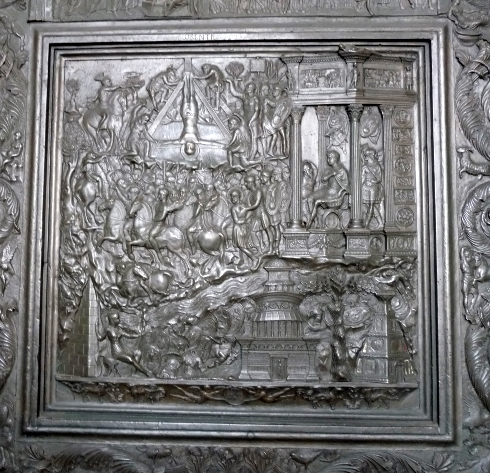 Portale del Filarete in St. Peter, Rome. Detail:Crucifixion of Saint Peter